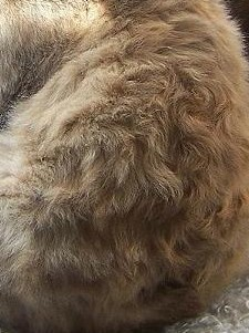 curlycoat_germanrex_kitten